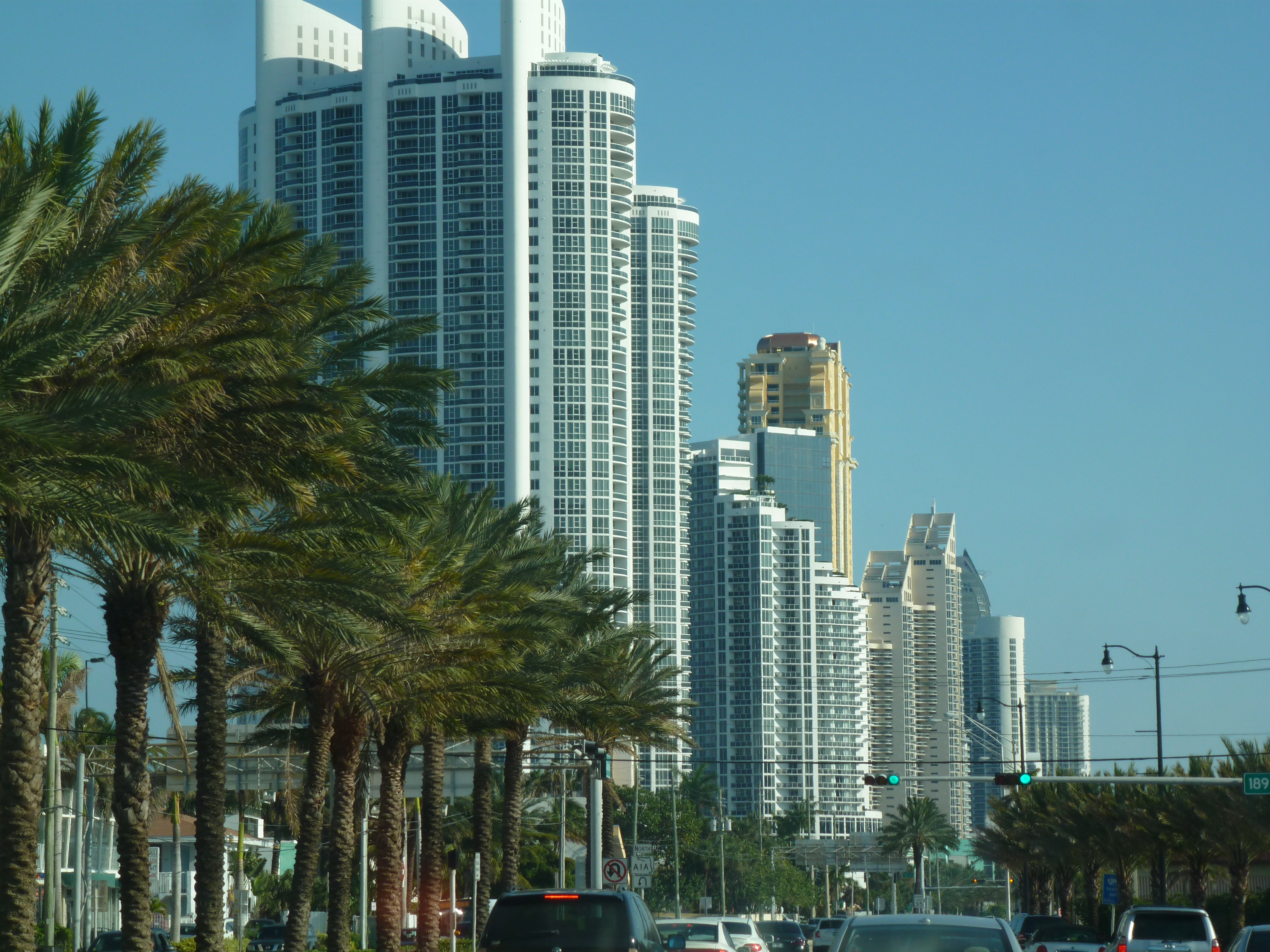 Skyline of Sunny Isles Beach, Florida from Collins Avenue